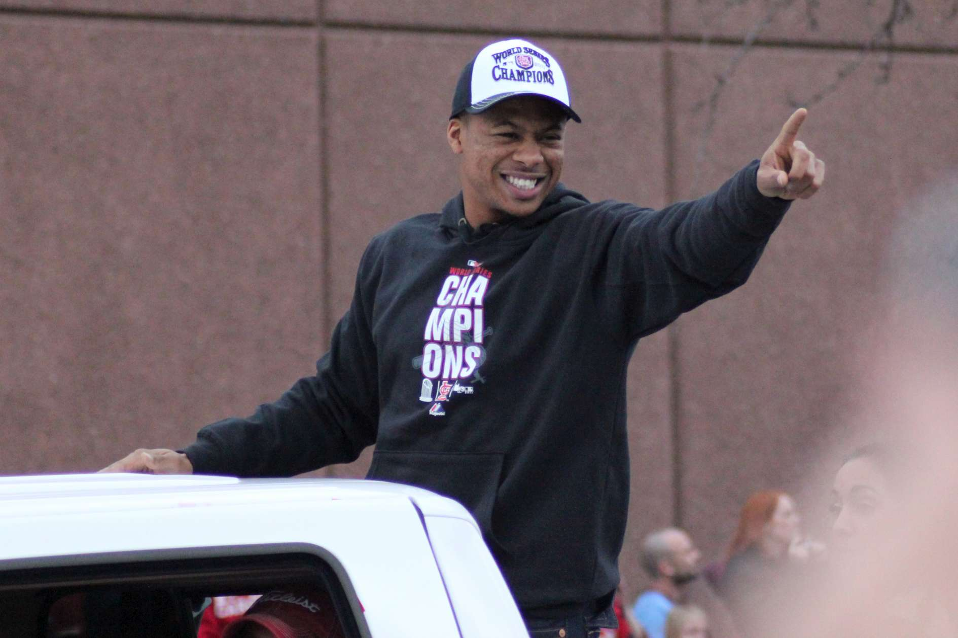 Adron Chambers during the 2011 World Series victory parade Saint Louis Oct 30, 2011.